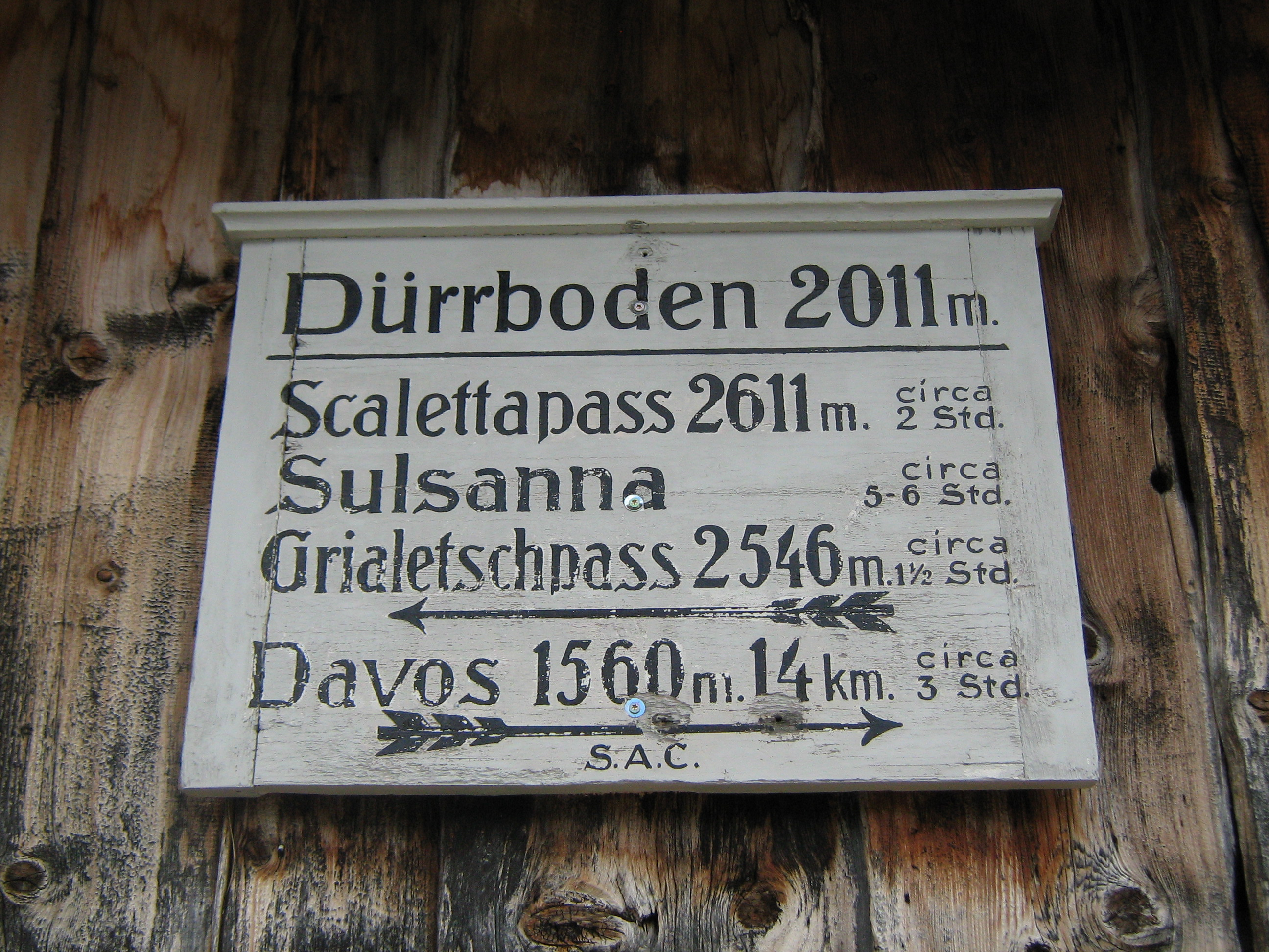 Sign at the Dürrboden in Discmatal, Davos, Graubünden, Switzerland. August 16, 2012.